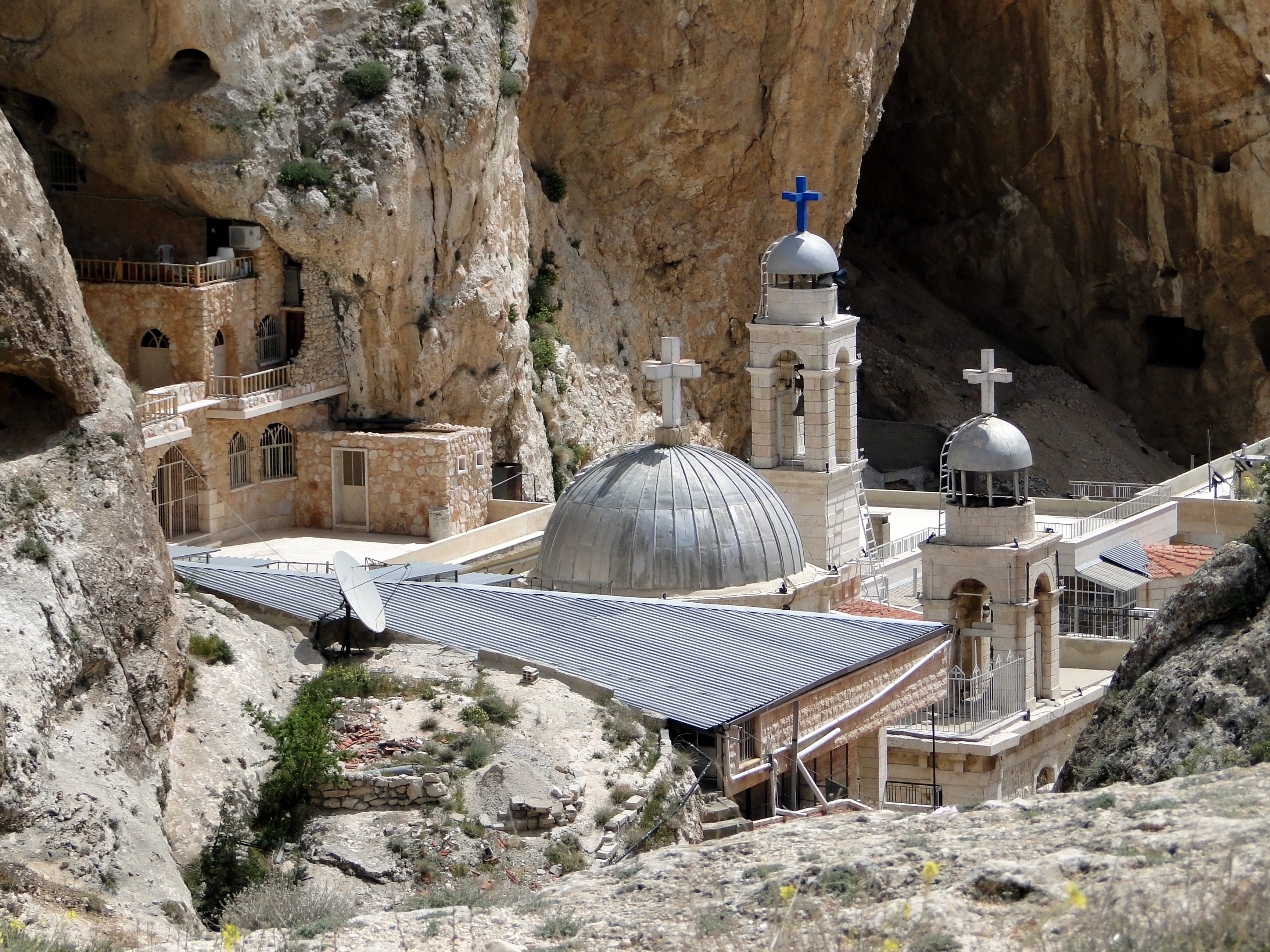 View of Saint Thecla (Mar Takla) monastery, Ma'loula, Syria